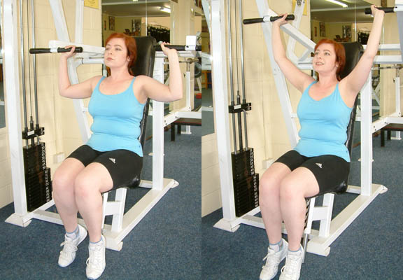 Thanks go to the model, Emily.